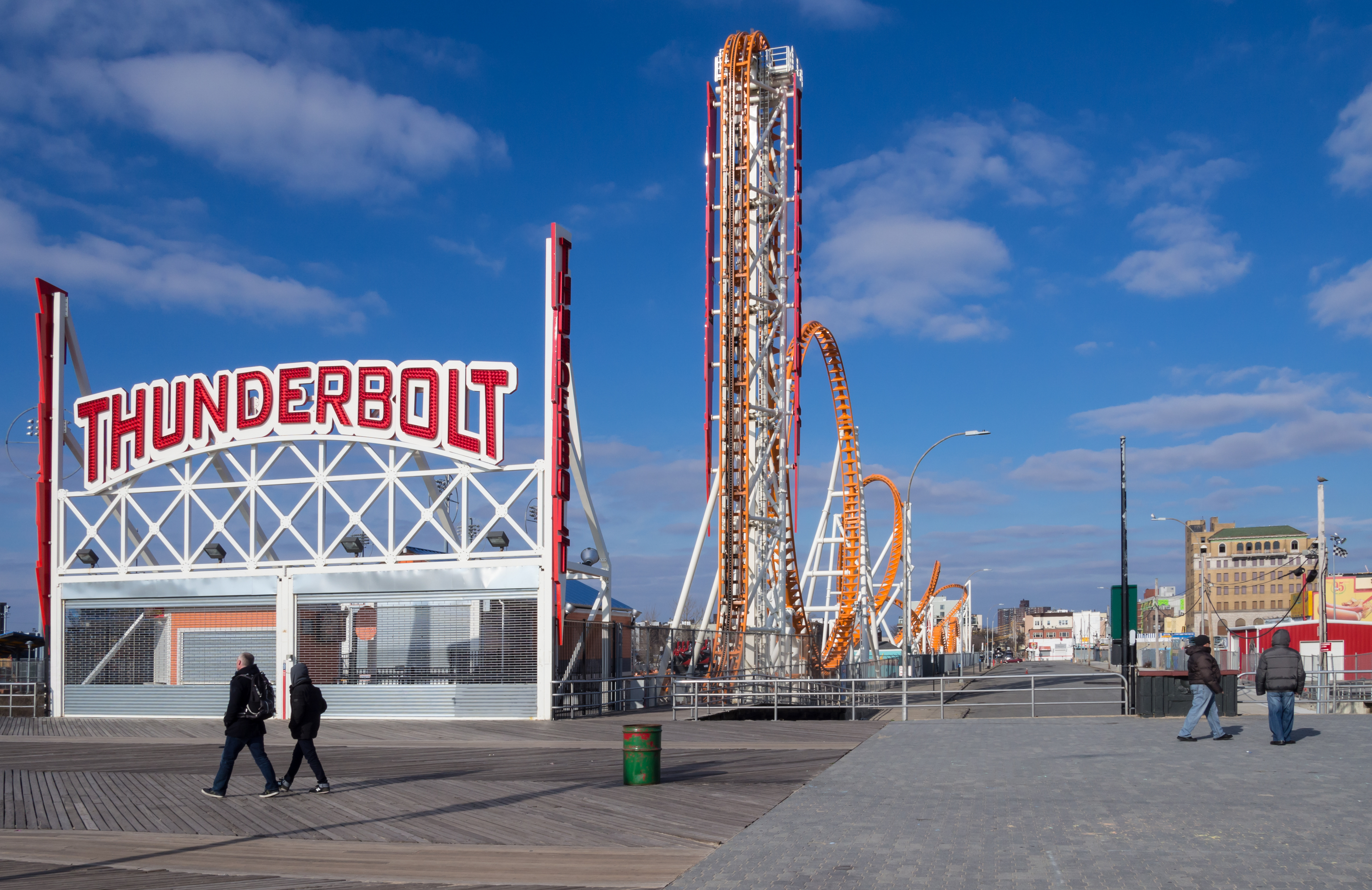 Thunderbolt rollercoaster, built in 2014 in Luna Park on Coney Island.